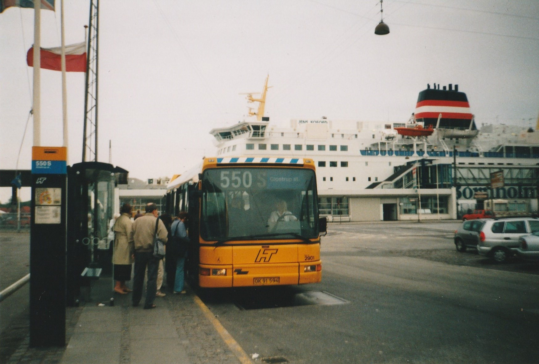 City-Trafik bus 2901 on HT bus line 550S at Kvæsthusbroen in Indre By in Copenhagen. In the background the ferry for Rønne.